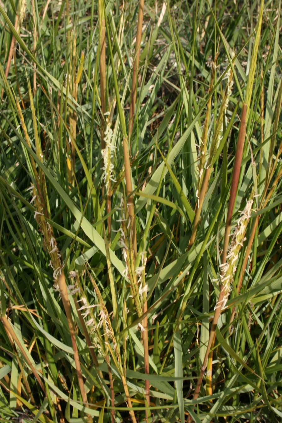 Spartina anglica: Flowering.